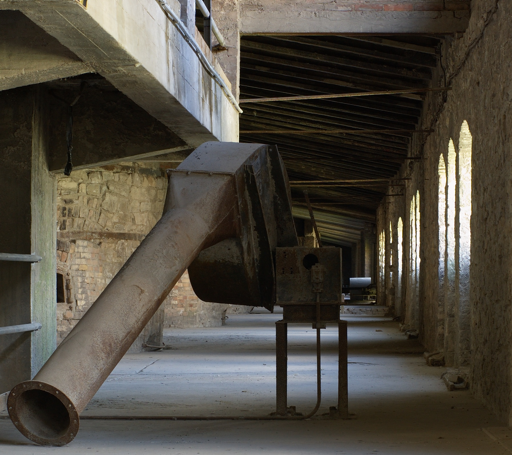 Shaft furnace battery, museum village Rüdersdorf near Berlin. Here is an open mining for lime stone and numerous industrial buildings.